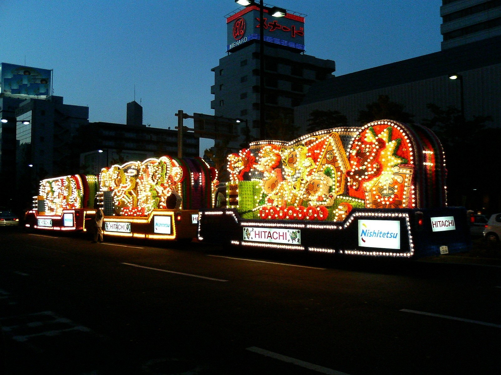 Decorated trucks in Hakata Dontaku